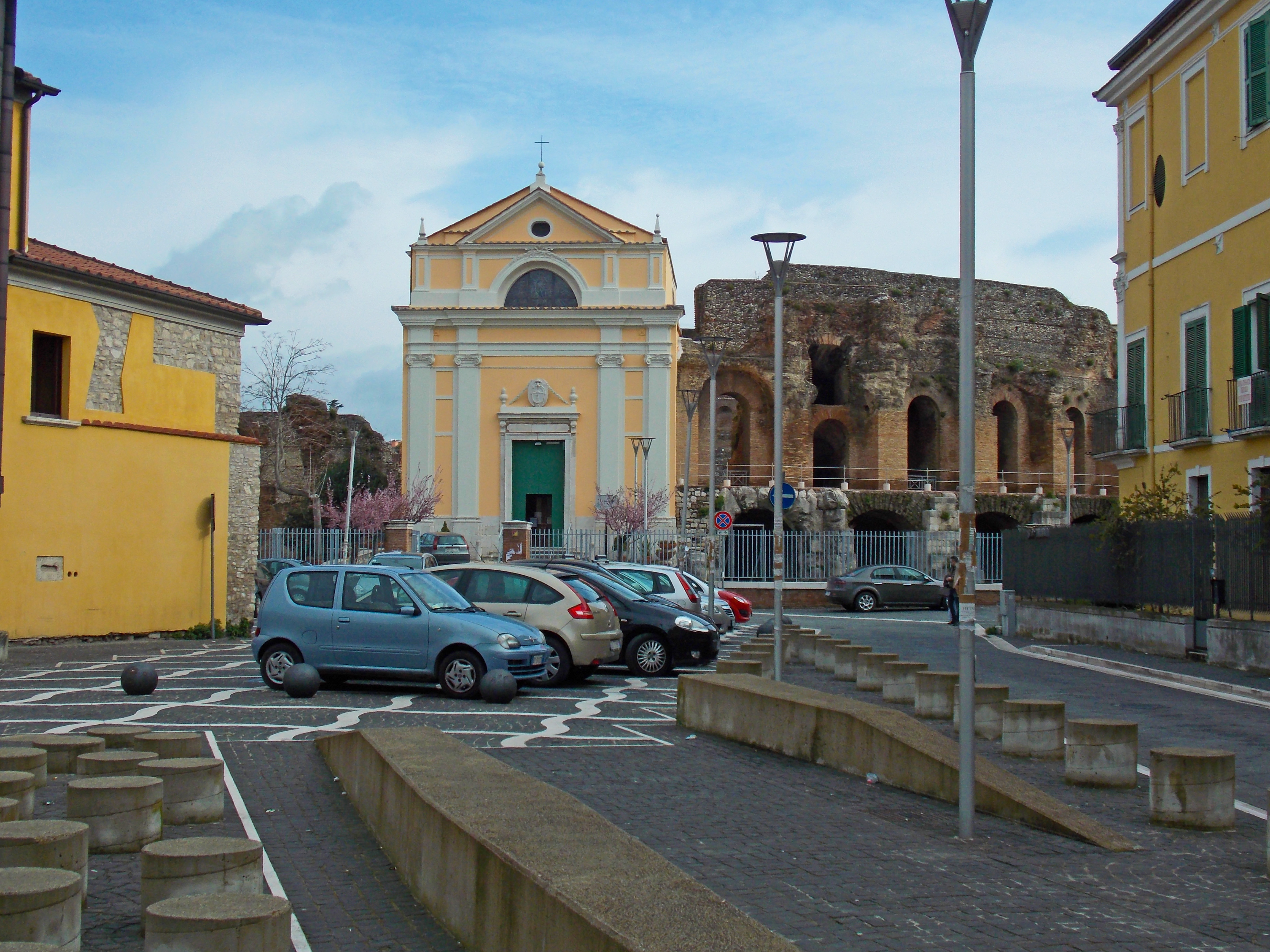 Piazza Caio Ponzio Telesino in Benevento (Italy), including the Roman theatre and the Church of Santa Maria della Verità